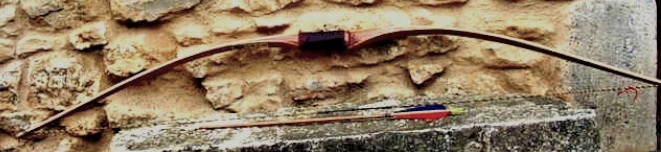 longbow with wooden arrow